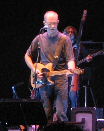 De Gregori live in Ripacandida Calypsos tour